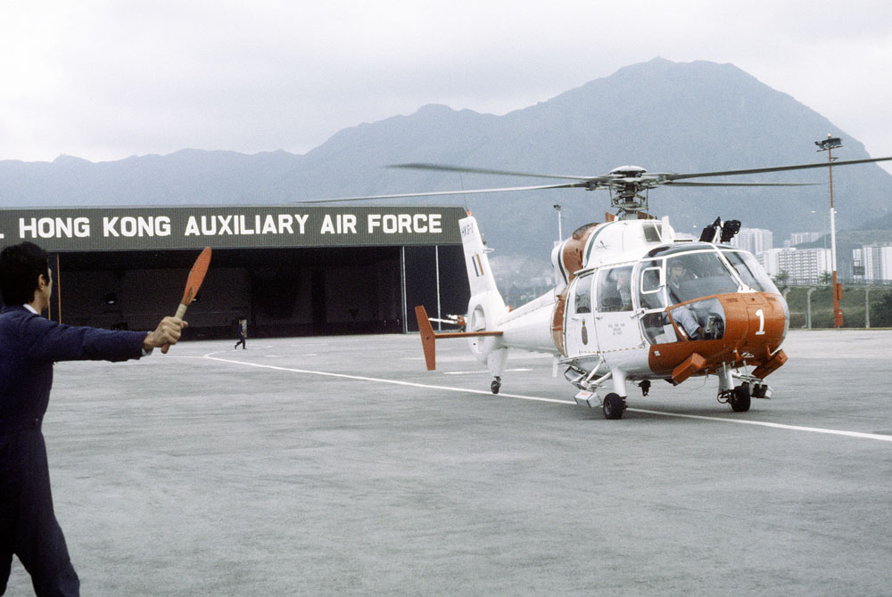 A right front view of a Royal Hong Kong Auxiliary Air Force Aerospatiale Dauphin helicopter leaving its hangar during Hong Kong Search and Rescue exercise '82.